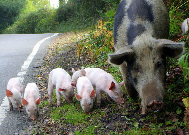 Pigs grazing on the road at Bramshaw All the pigs in the Forest are owned by Commoners. Each year they are allowed onto open forest land for 60 days, known as pannage season, to eat acorns which would otherwise poison the ponies.